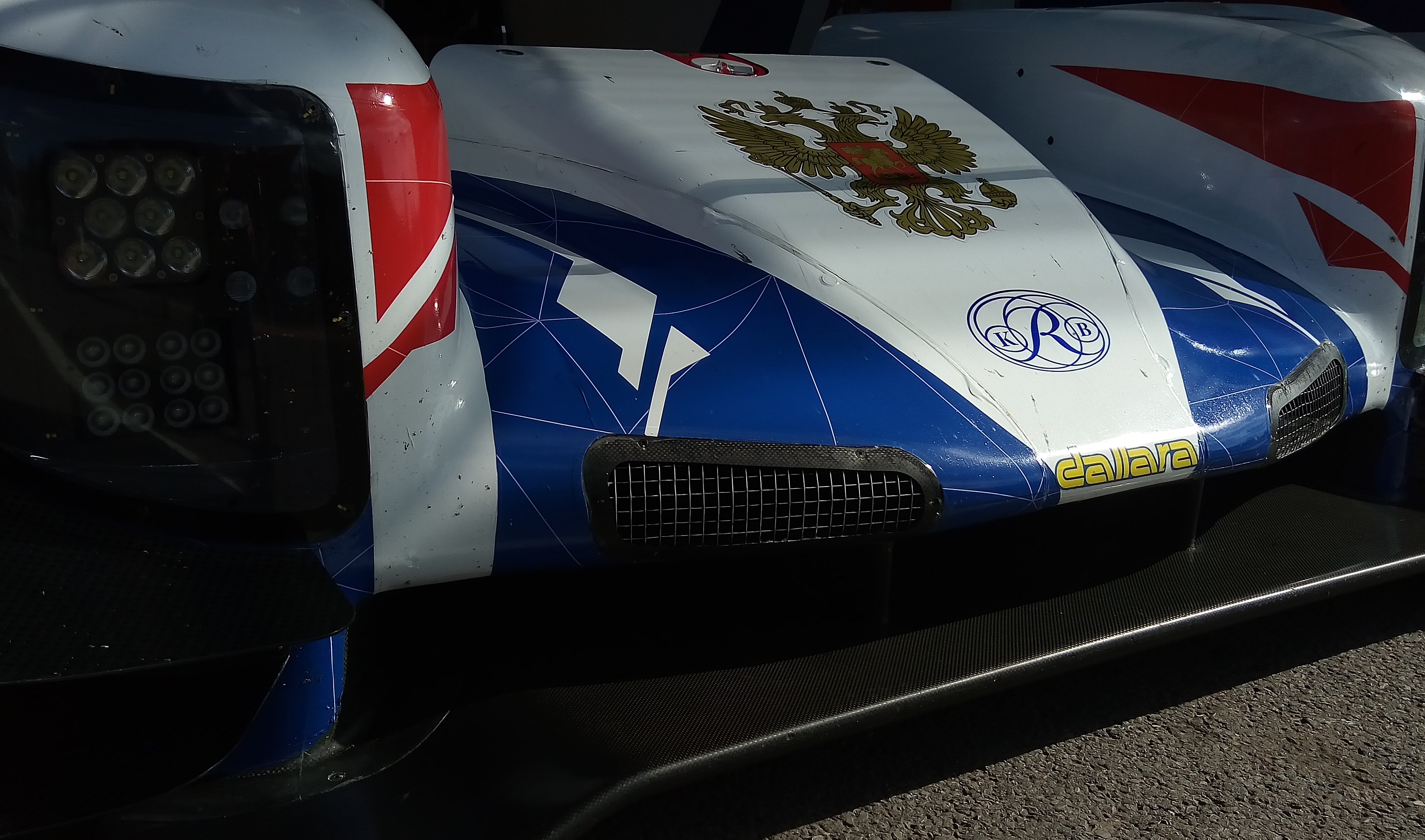 The front end of the SMP Racing Dallara P217.